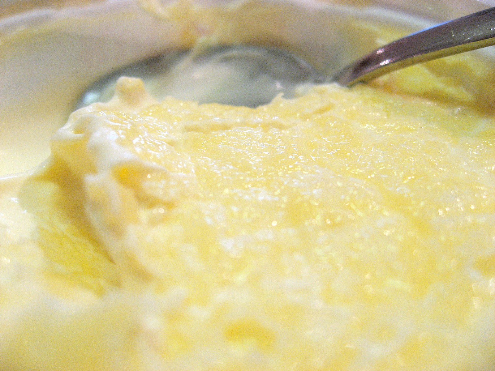 Clotted cream With a crust.